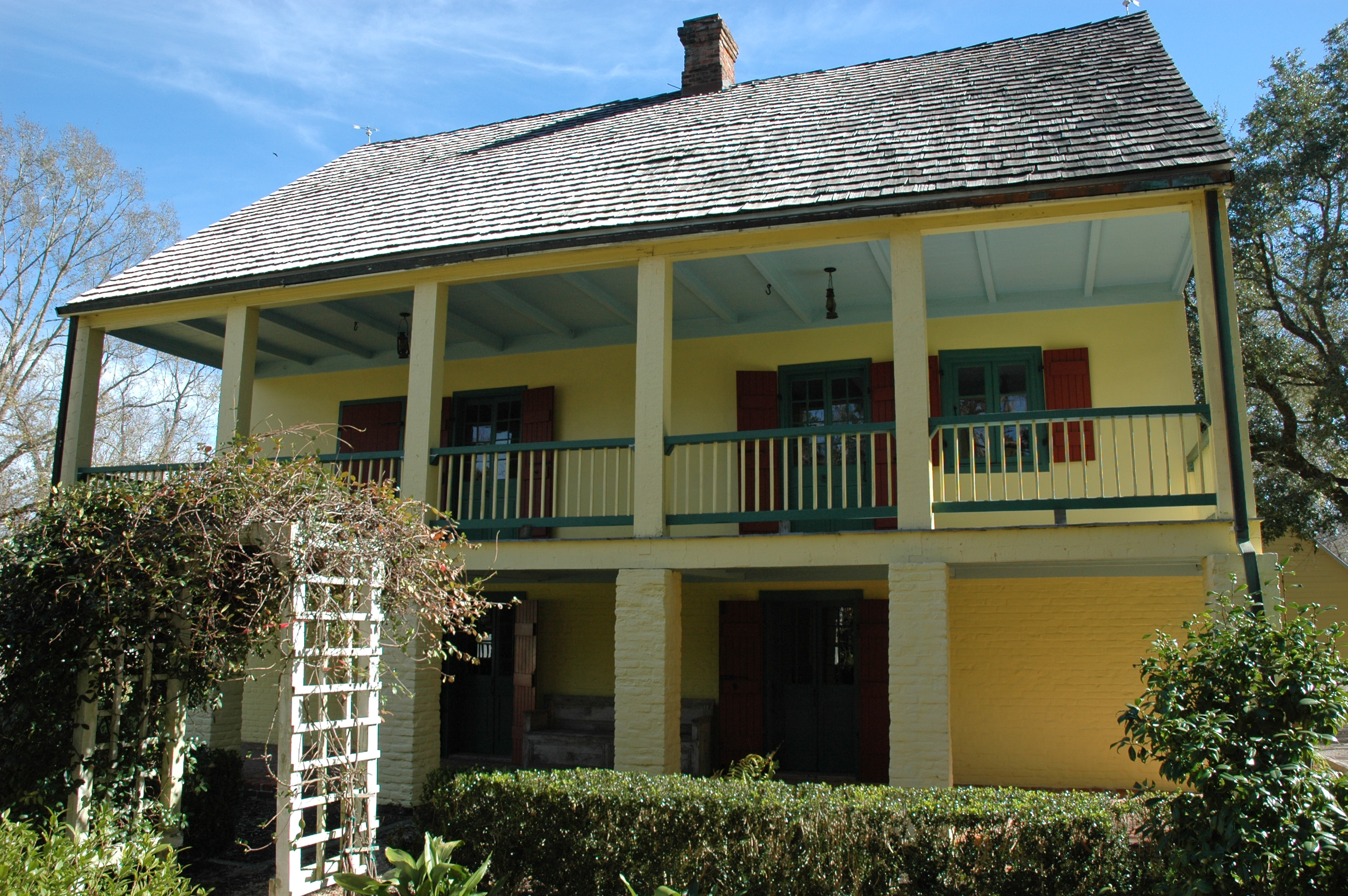 Mason Olivier Creole cottage at the Longfellow-Evangeline State Historic Site in Louisiana.